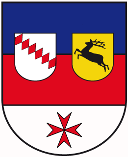 Coat of arms of Räckelwitz, Bautzen district Hornjoserbsce: Wopon gmejny Worklec.